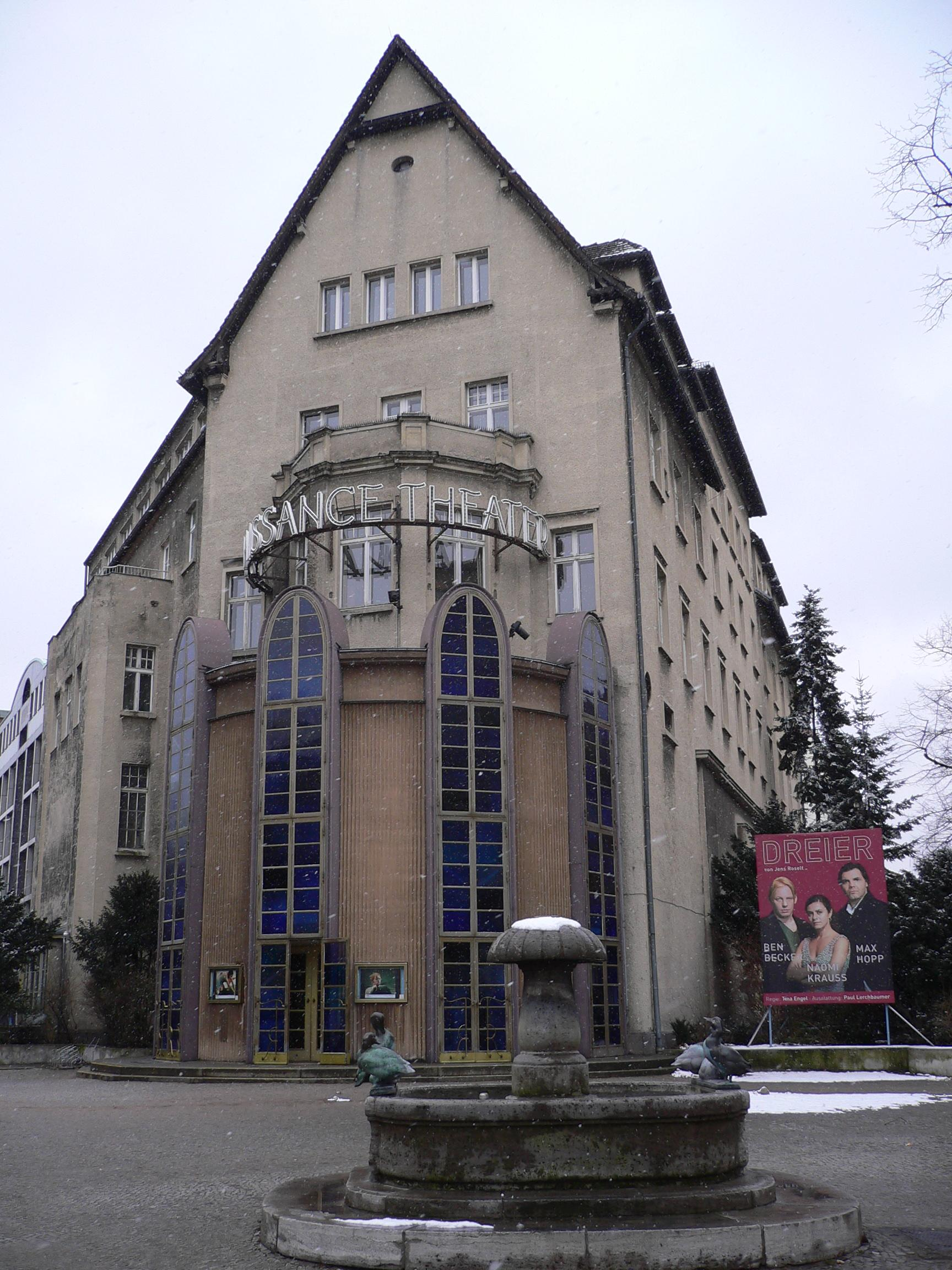 Renaissance-Theater, Knesebeckstraße/Hardenbergstraße, in front the Entenbrunnen by August Gaul Quelle / Source selbst fotografiert / taken by myself Datum der Aufnahme / Time of creation 2005-02-26 Fotograf / Photographer Georg Slickers